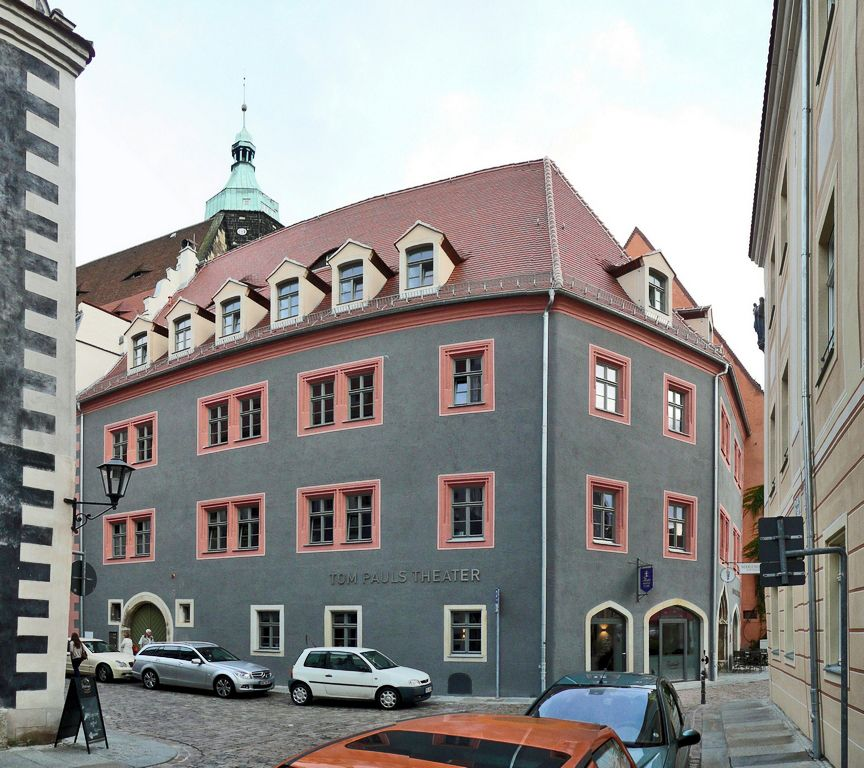 Pirna, Am Markt 3, cultural heritage monument built 1506.